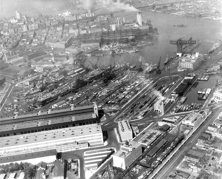 Aerial view of the U.S. Navy New York Naval Shipyard on 15 April 1945. There are four aircraft carriers under construction: USS Reprisal (CV-35) in Dry Dock No. 6; USS Coral Sea, later renamed USS Franklin D. Roosevelt (CVB-42) in Dry Dock No. 5; USS Kearsarge (CV-33); USS Oriskany (CV-34) (not visible behind Kearsarge).